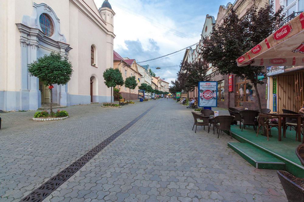 Voloshin street in Uzhhorod